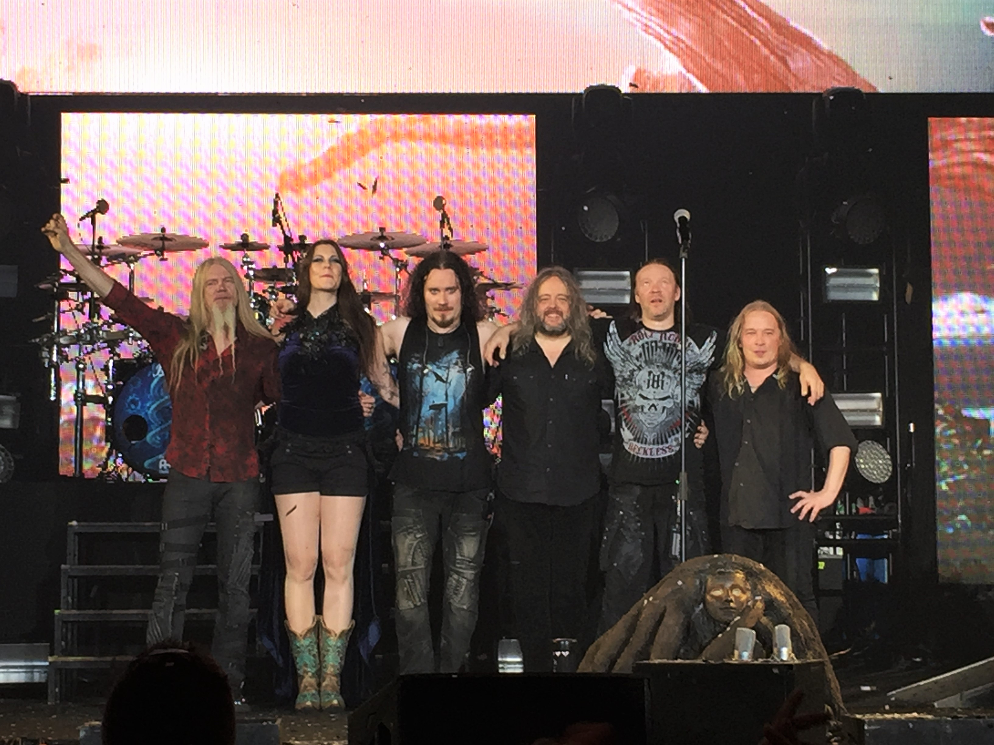 The band Nightwish at a concert in Esch Sur Alzette in Luxembourg on Dec 16, 2015. From left to right: Marco Hietala, Floor Jansen, Tuomas Holopainen, Troy Donockley, Kai Hahto and Emppu Vuorinen